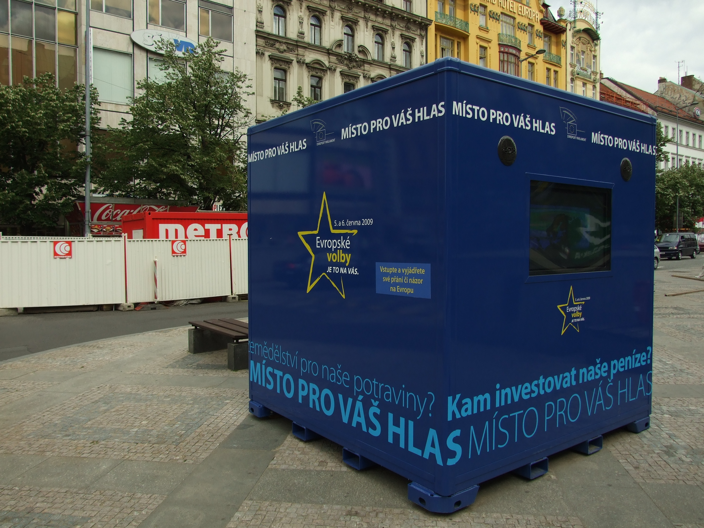 Politic rallyes in the central part of Prague few days before elections of European Parliament for 2009-2013 termhelp